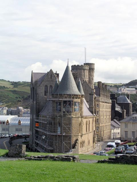 Old College Building from the Castle.